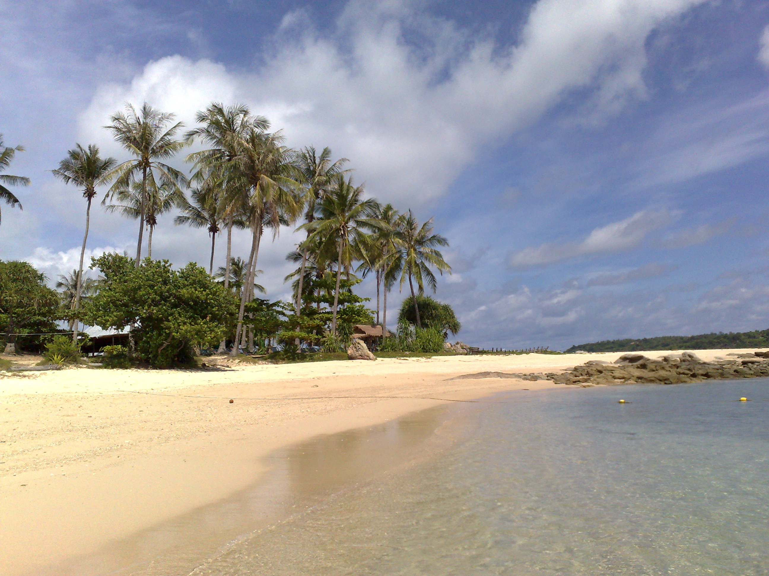 Bon Island, Phuket, Thailand